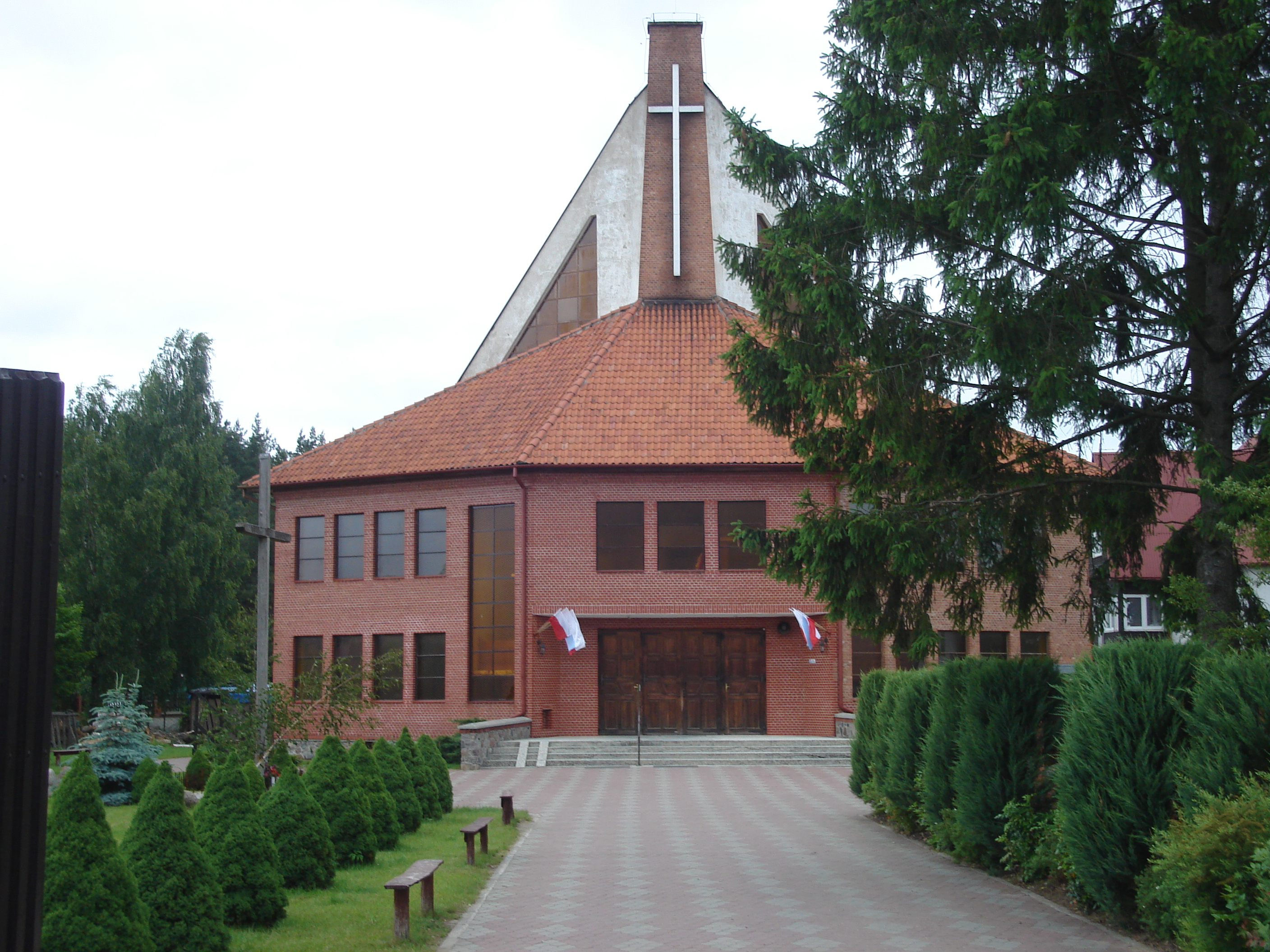 Church in Ruciane Nida